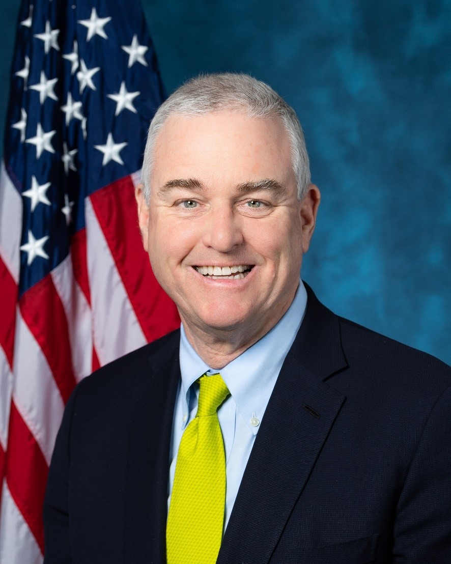 The official headshot of Rep. David Trone (D-MD)